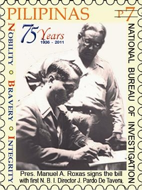 Signing of an order creating the National Bureau of Investigation as an attached agency under the Department of Justice with then President Manuel A. Roxas and with first NBI Director J. Pardo De Tavera